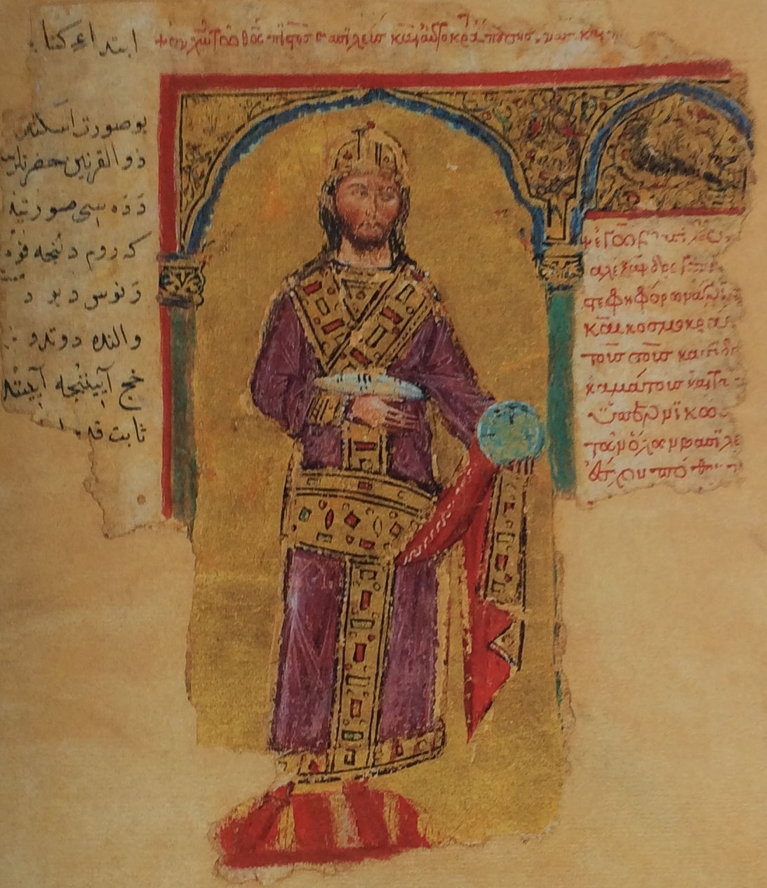 Dedication page Hellenic Institute codex 5 (Alexander Romance recension gamma)